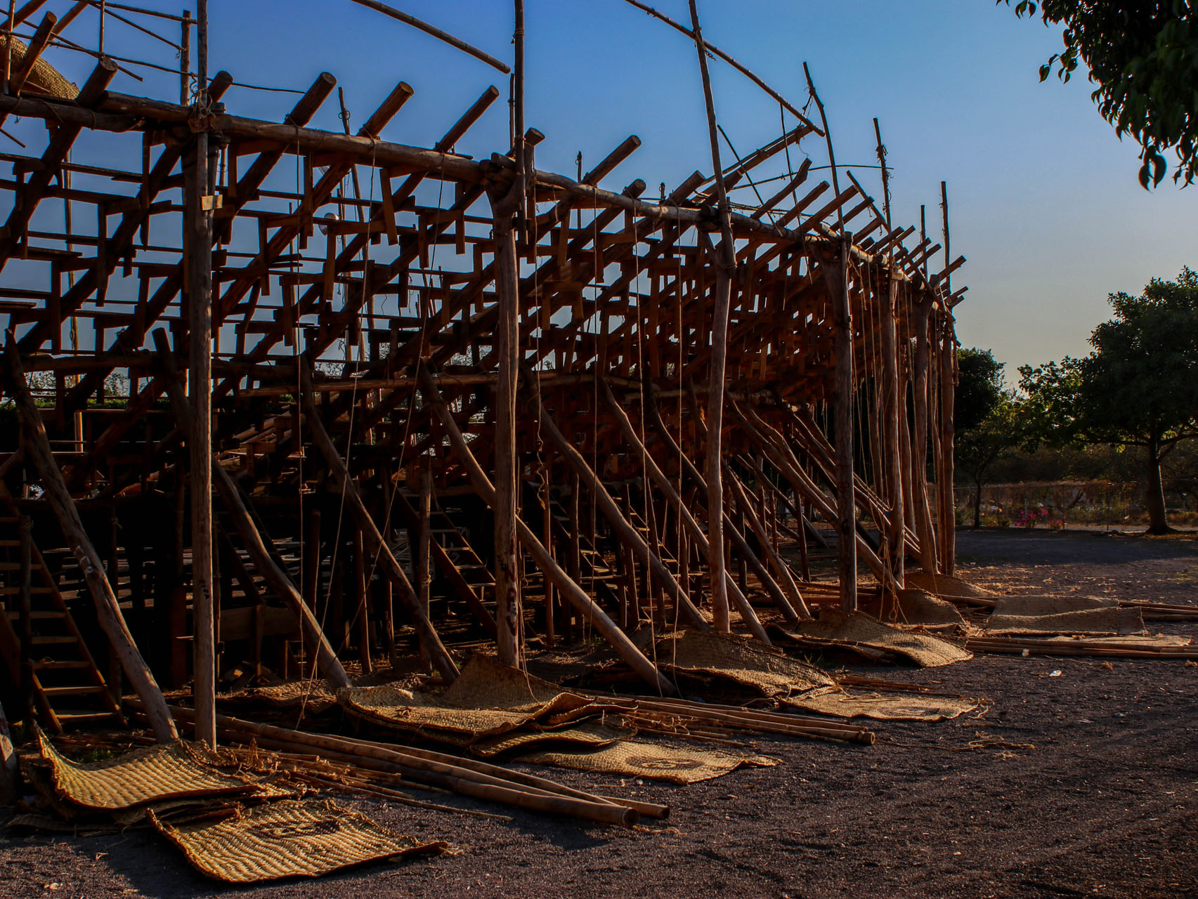 Plaza de toros y espectáculos "La Petatera" en Villa de Álvarez Col., elaborada con base en materiales naturales como madera ,soga y petates para las fiestas Charrotaurinas en honor a San Felipe de Jesús patrono de la ciudad de Colima Col. México